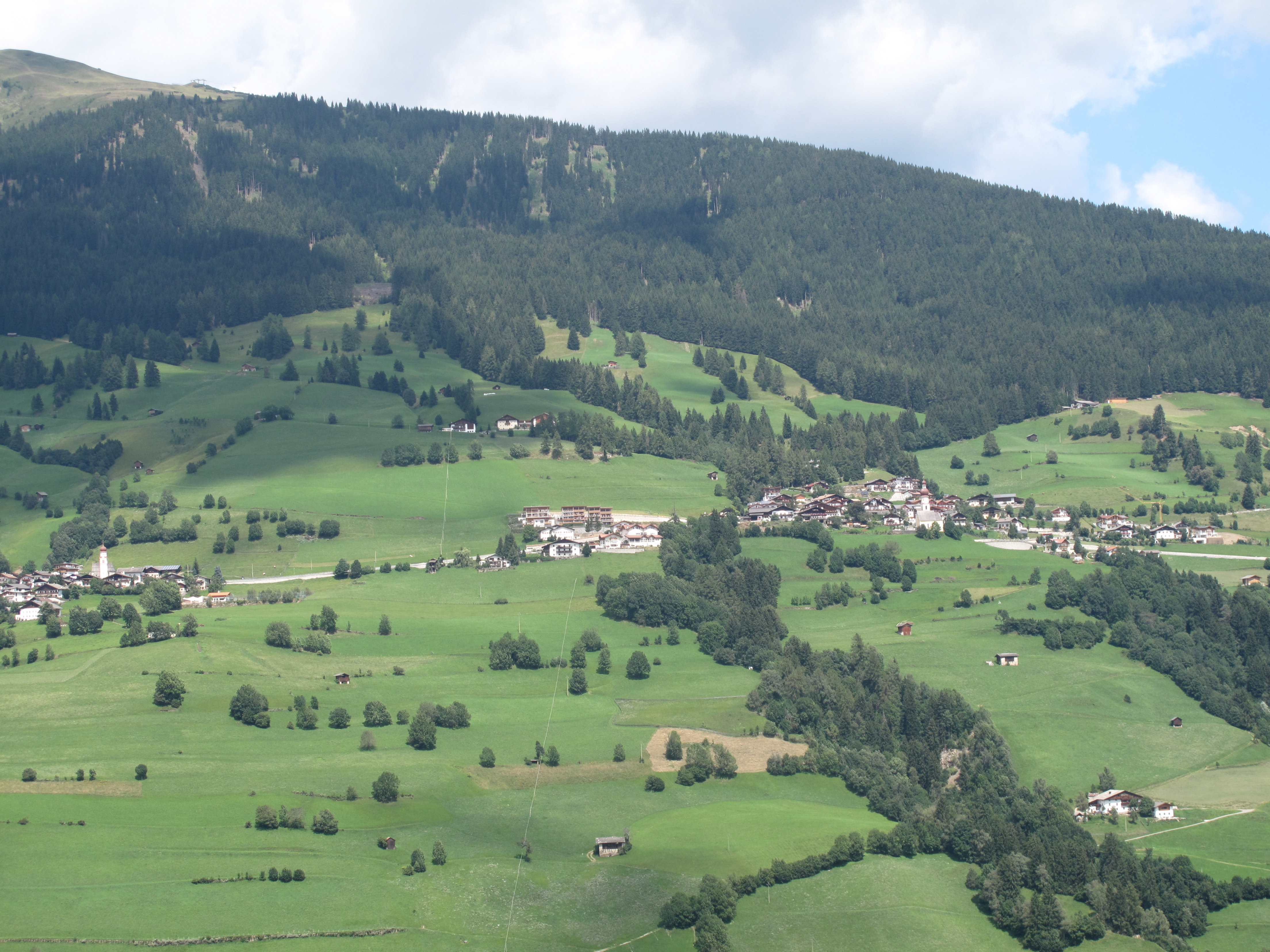 Racines, panorama from between Gasteig and Calice